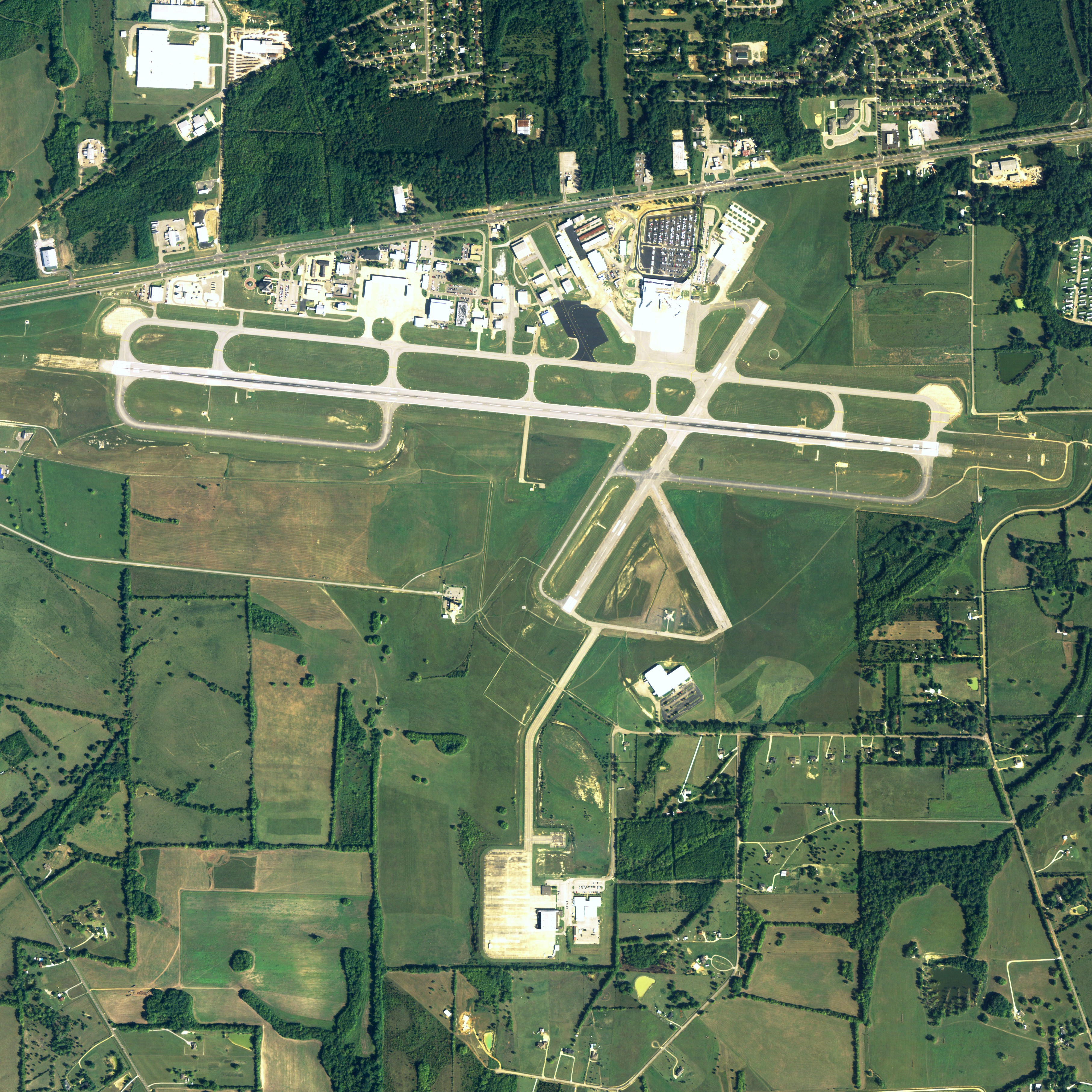 Aerial image of Montgomery Regional Airport in Montgomery, Alabama, United States